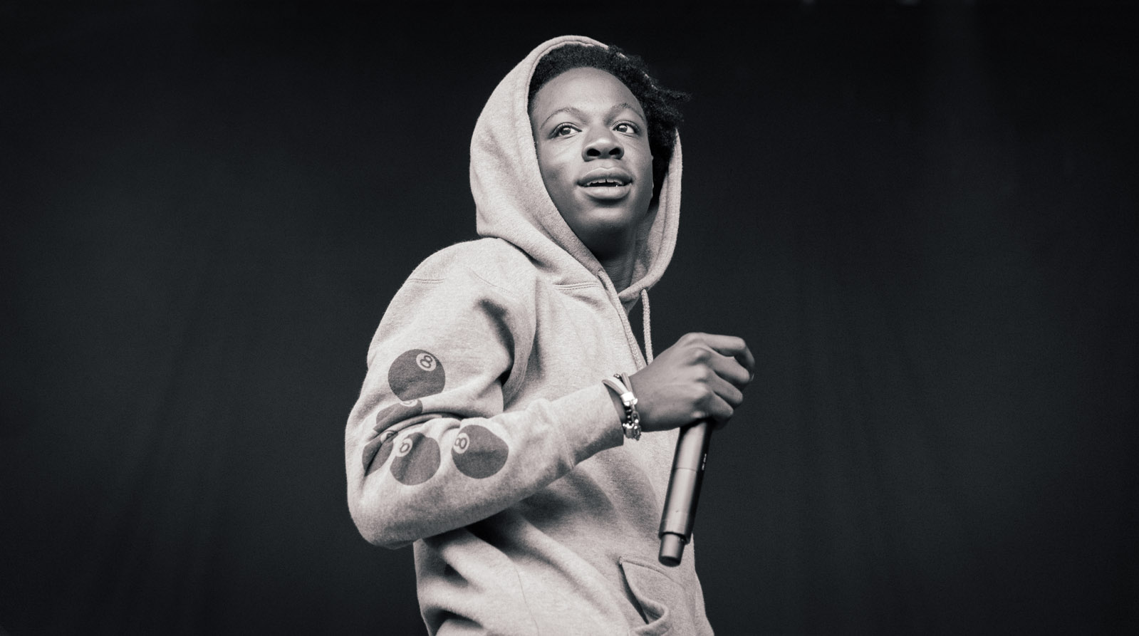 Joey Bada$$ performing at Hovefestivalen 2013